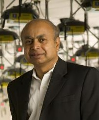 Profile picture of Prof. Dipankar Raychaudhuri